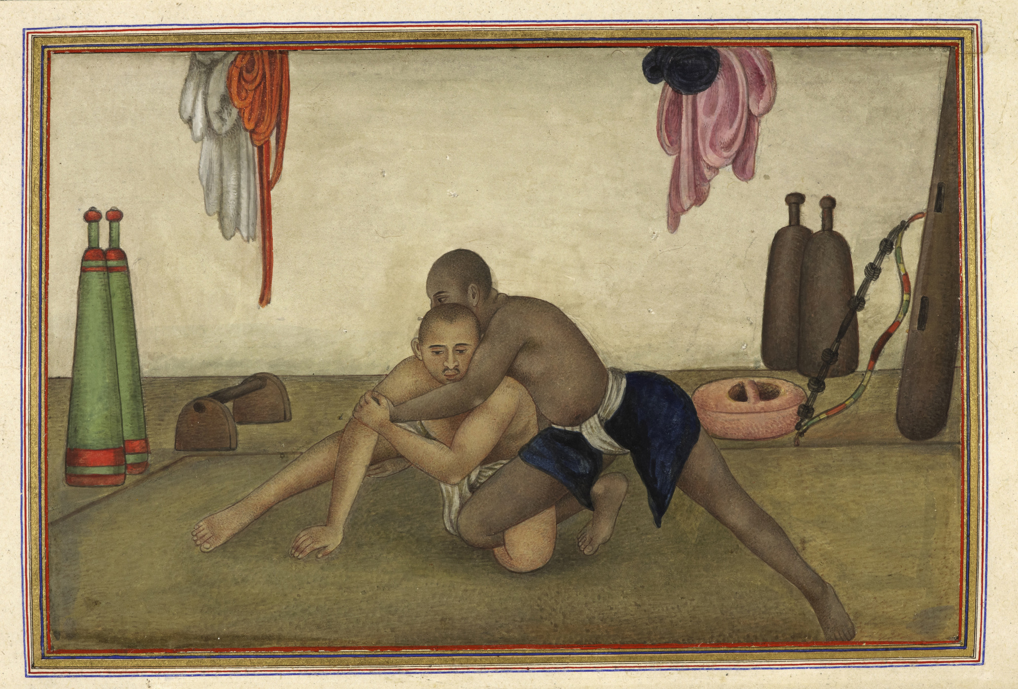 Two men wrestling.